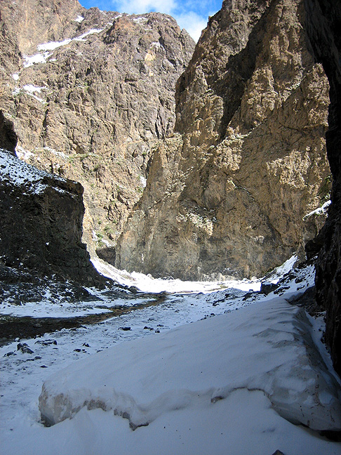 Remnants of the ice field in Yoliin Am, a deep gorge in the Gurvansaikhan Mountains region of the Gobi Desert in Mongolia.